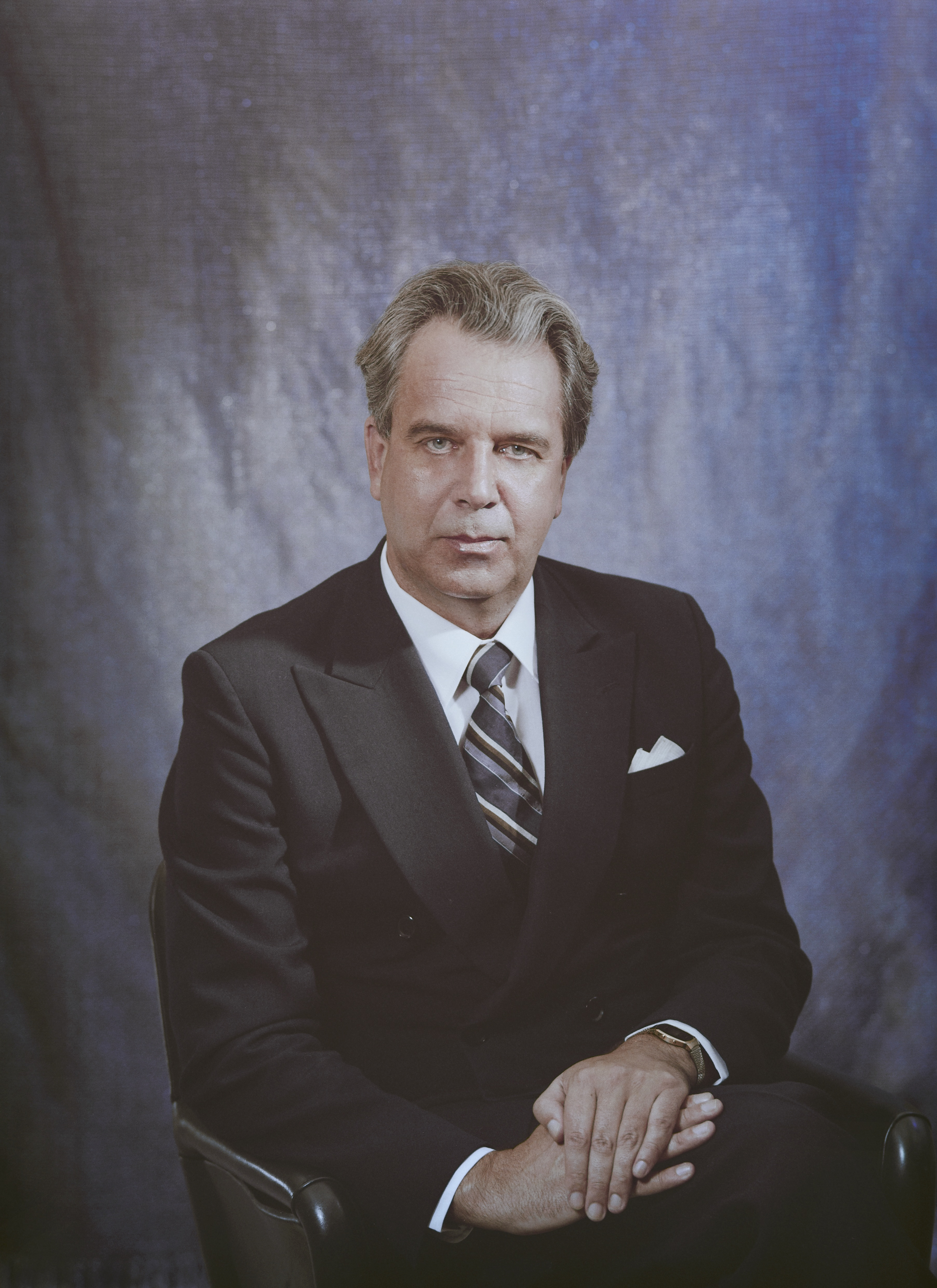 Photograph of the Finnish bank director Rolf Kullberg (1930–2007).